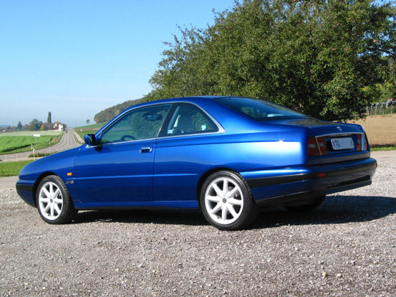 Lancia Kappa Coupé